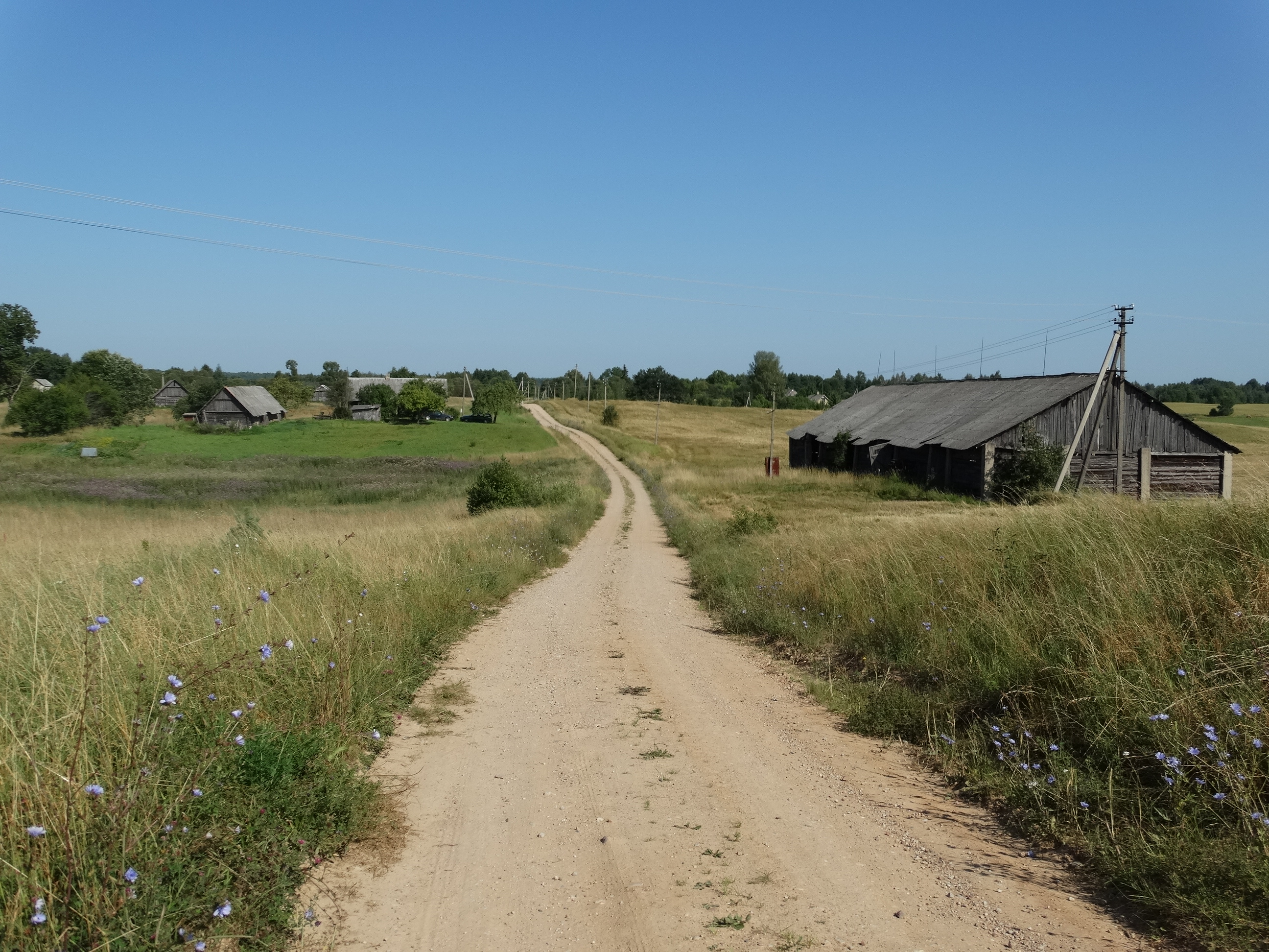 Ažuožeriai (Inturkė), Molėtai district, Lithuania